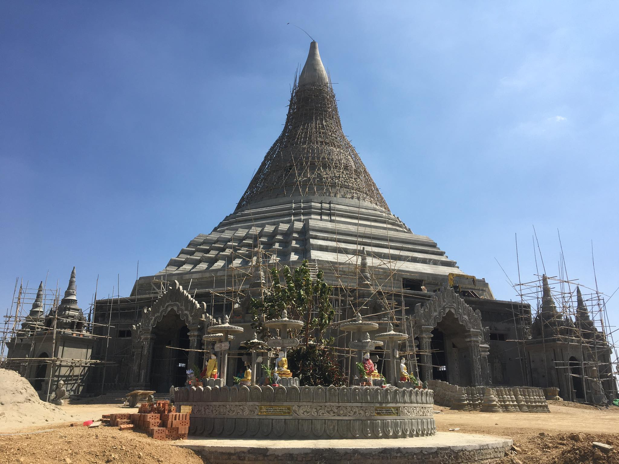 Aung Chan Thar Pagoda